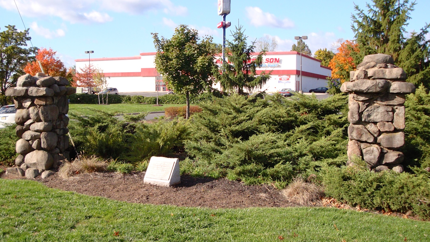 The memorial plaque placed on the Frelinghuysen estate grounds commemorating the Knox–Porter Resolution officially ending America's involvement in World War I.